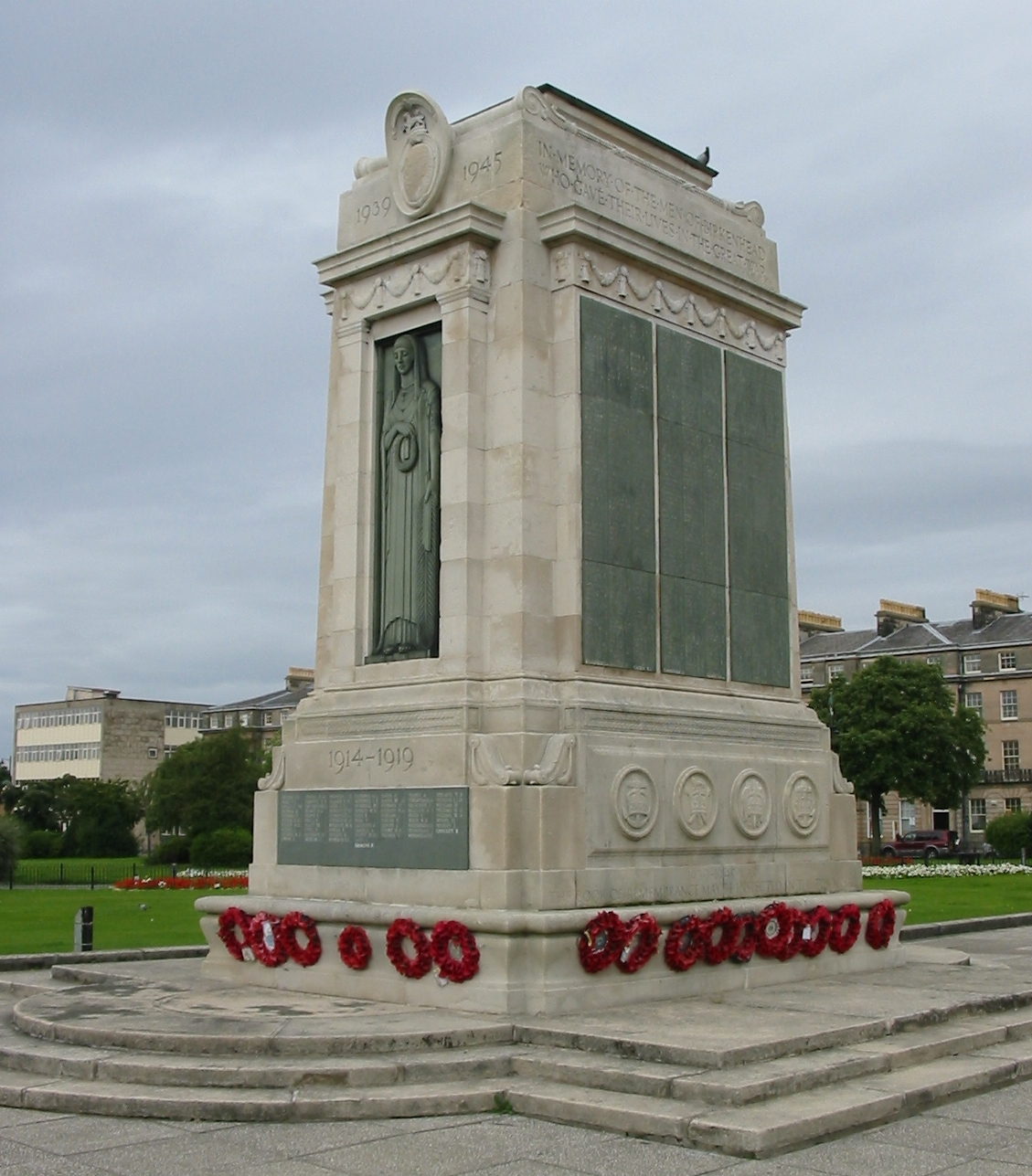 Cenotaph in front of the Town Hall building, Hamilton Square, Birkenhead, Merseyside, England.